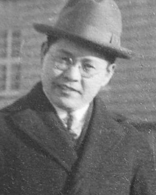 Physicist Yoshio Nishina, 1926 at Copenhagen